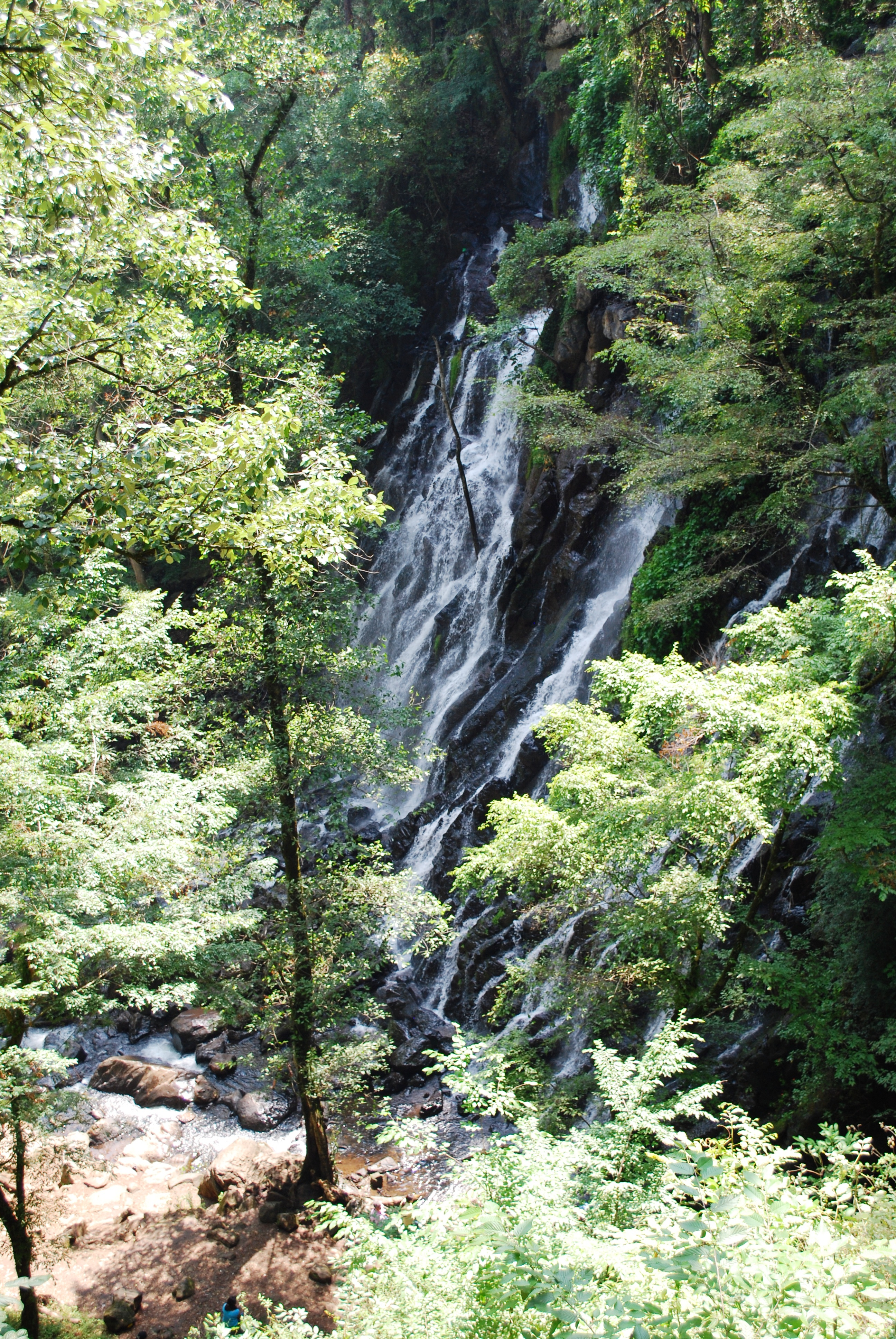 View of the Velo de Novia Waterfall in Velo de Novia Park, Valle de Bravo, Mexico